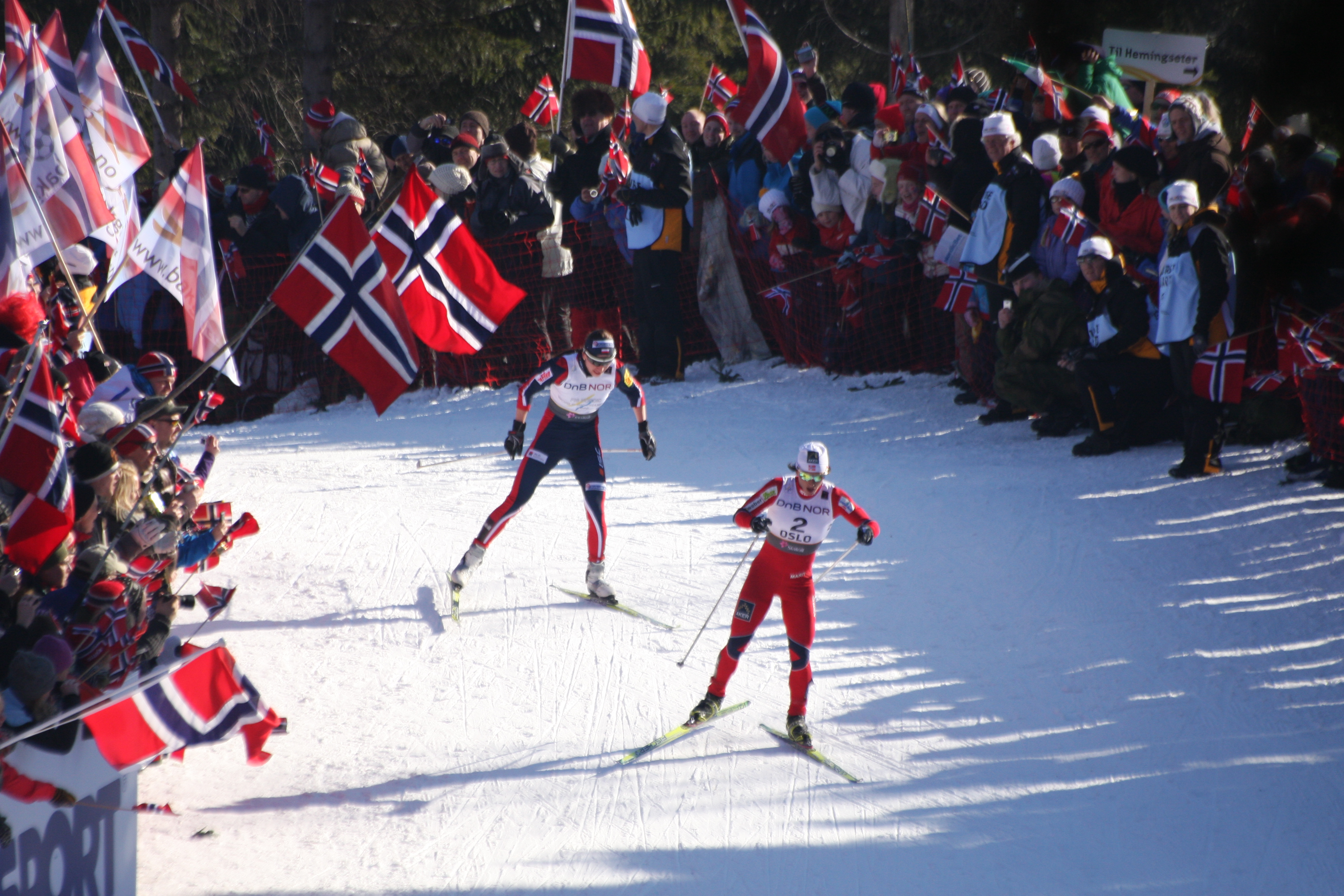 Marit Björgen (right) and Justyna Kowalczyk (left) at 17 of the women's 30 km cross country. FIS World Ski Championship, Oslo 2011.